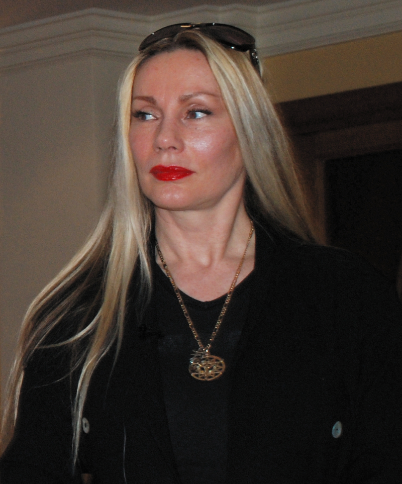 Virginia Hey at Deepcon 2007